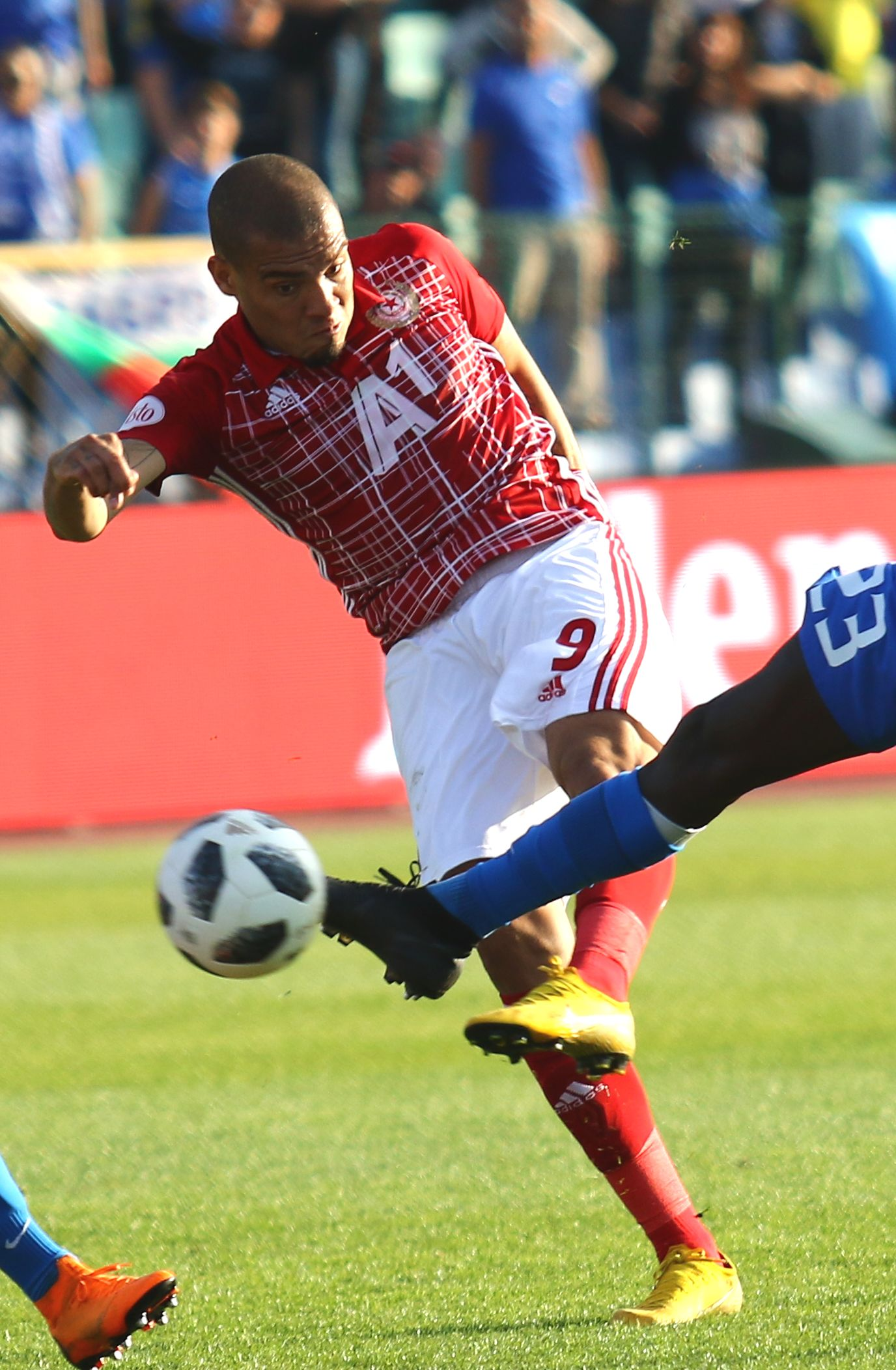 Maurides Roque Junior commonly known as Maurides (born 10 March 1994) is a Brazilian professional footballer who plays as a striker for CSKA Sofia.